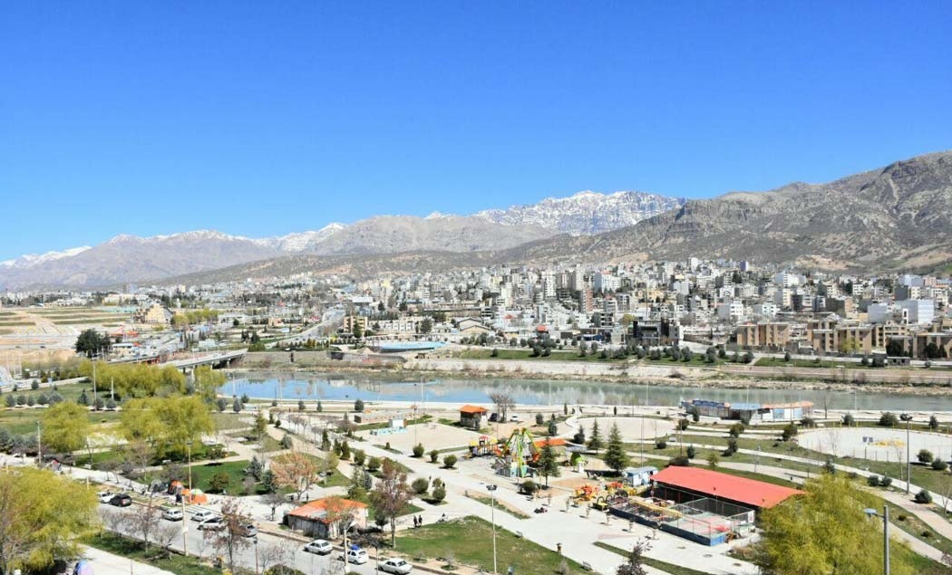 Celebration of the first day of Nowruz in Yasuj. see full gallery